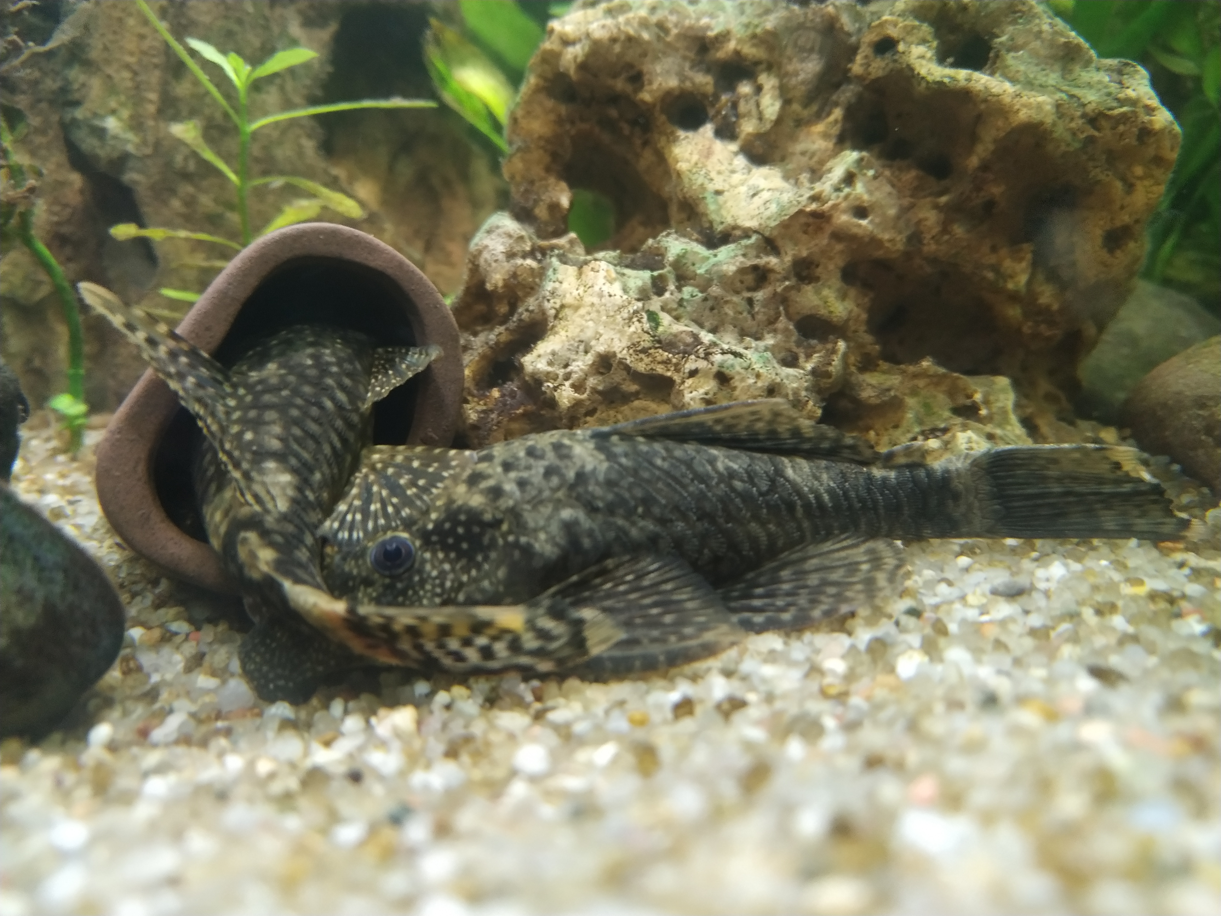 Ancistrus dolichopterus